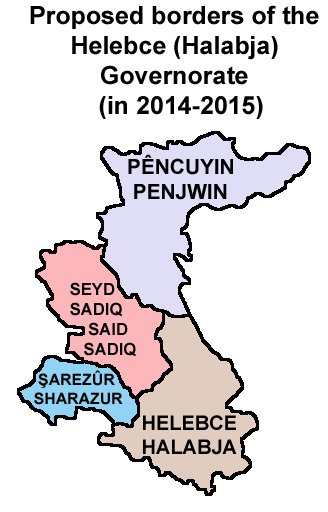 Map showing the proposed borders of the Helebce (Halabja) Governorate of Kurdistan Region in Iraq (in 2014-2015).